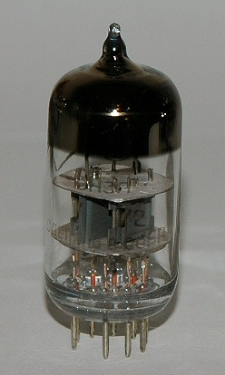 6N3P vacuum tube